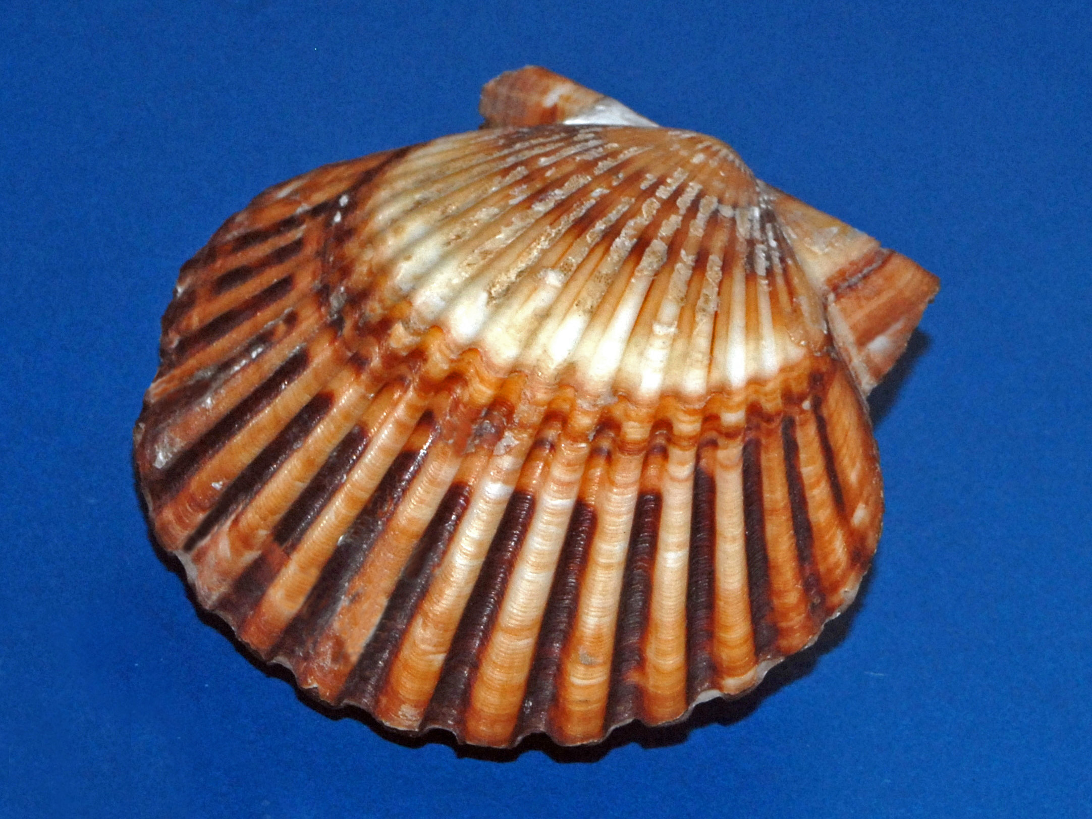 "Argopecten irradian" from Bermuda at the Museo Civico di Storia Naturale di Milano